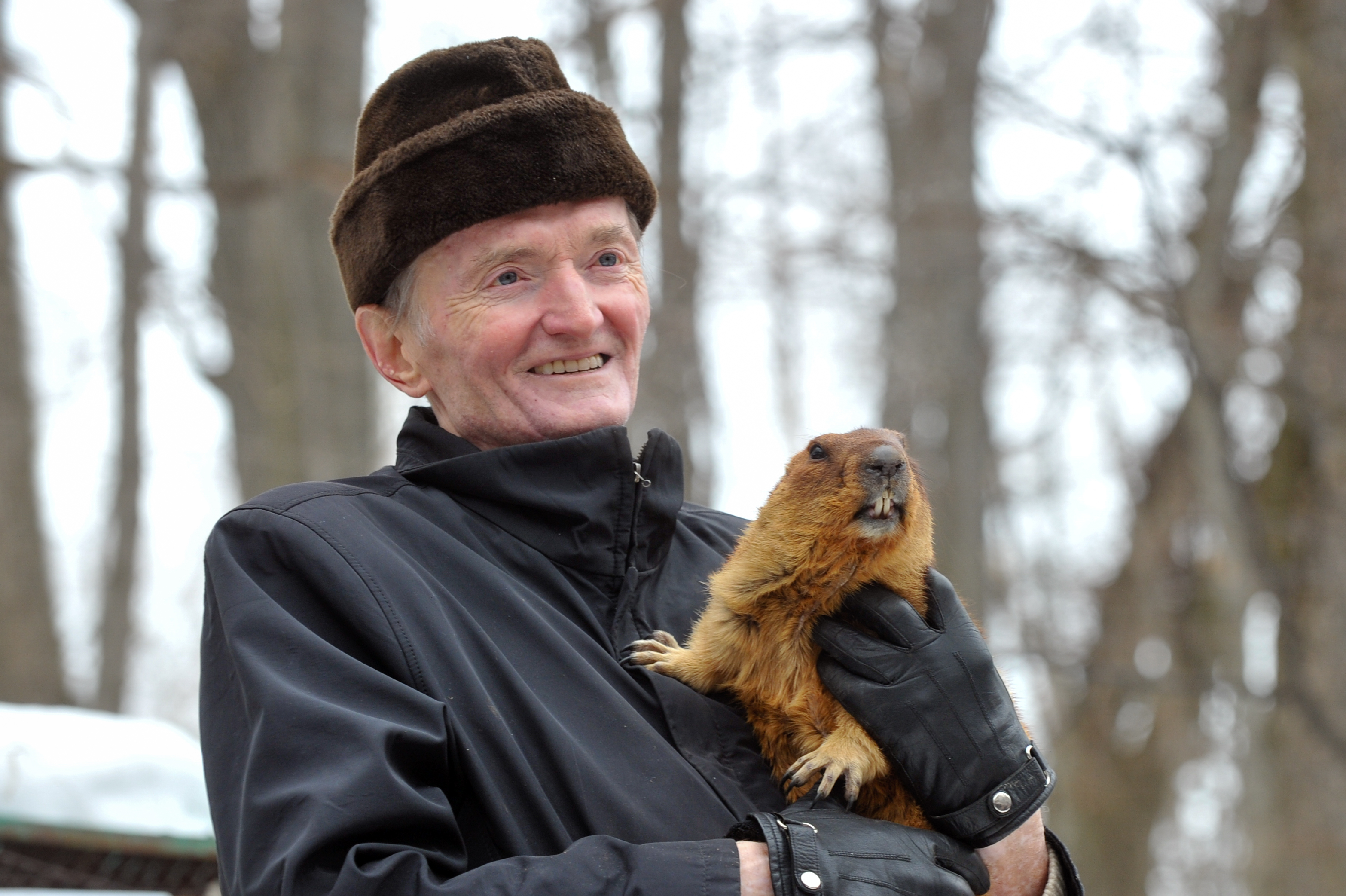 Viktor Tokarskyi, professor, V.N. Karazin Kharkiv National University. February 2016.